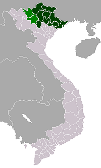 Northeastern Region map of Vietnam